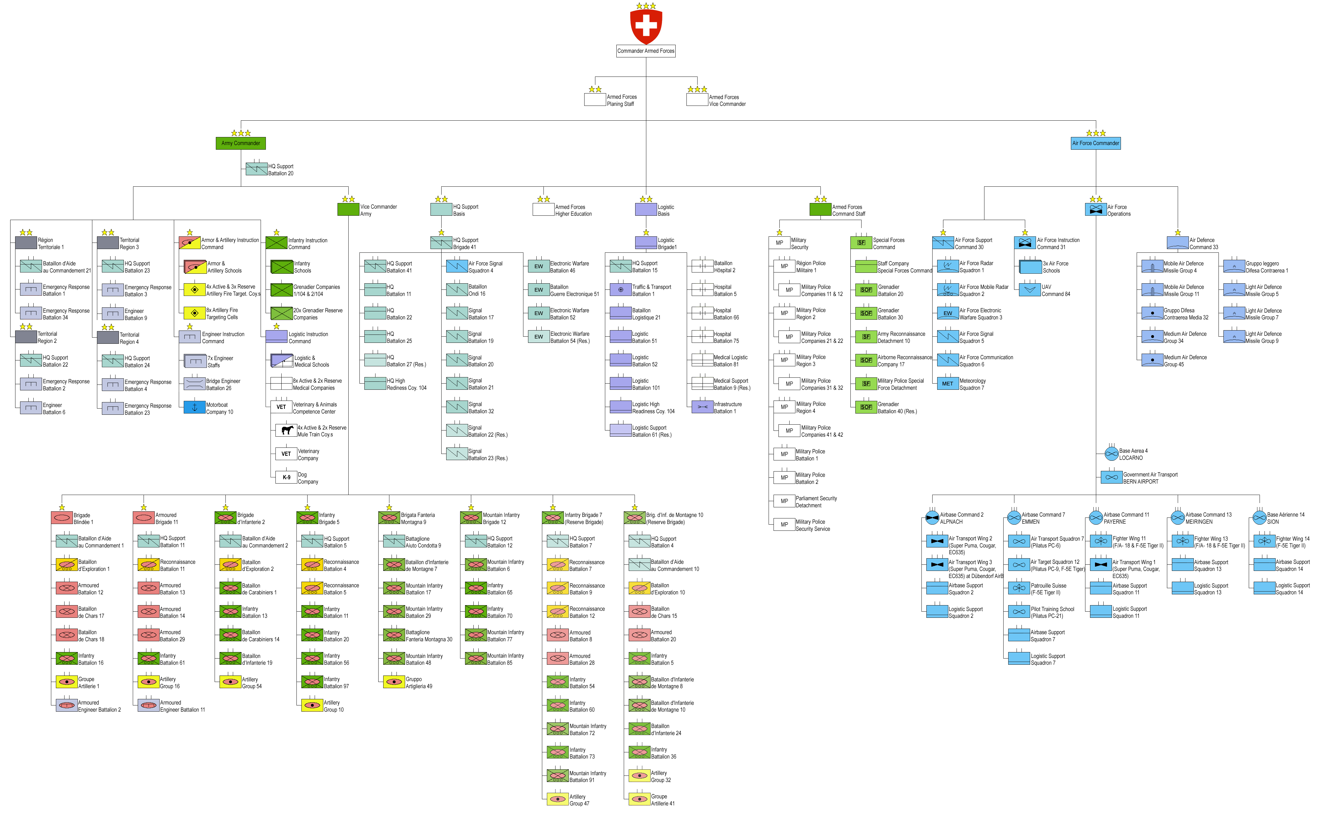 Structure of the Swiss Army XXI - restructuring underway - new structure complete January 2011.